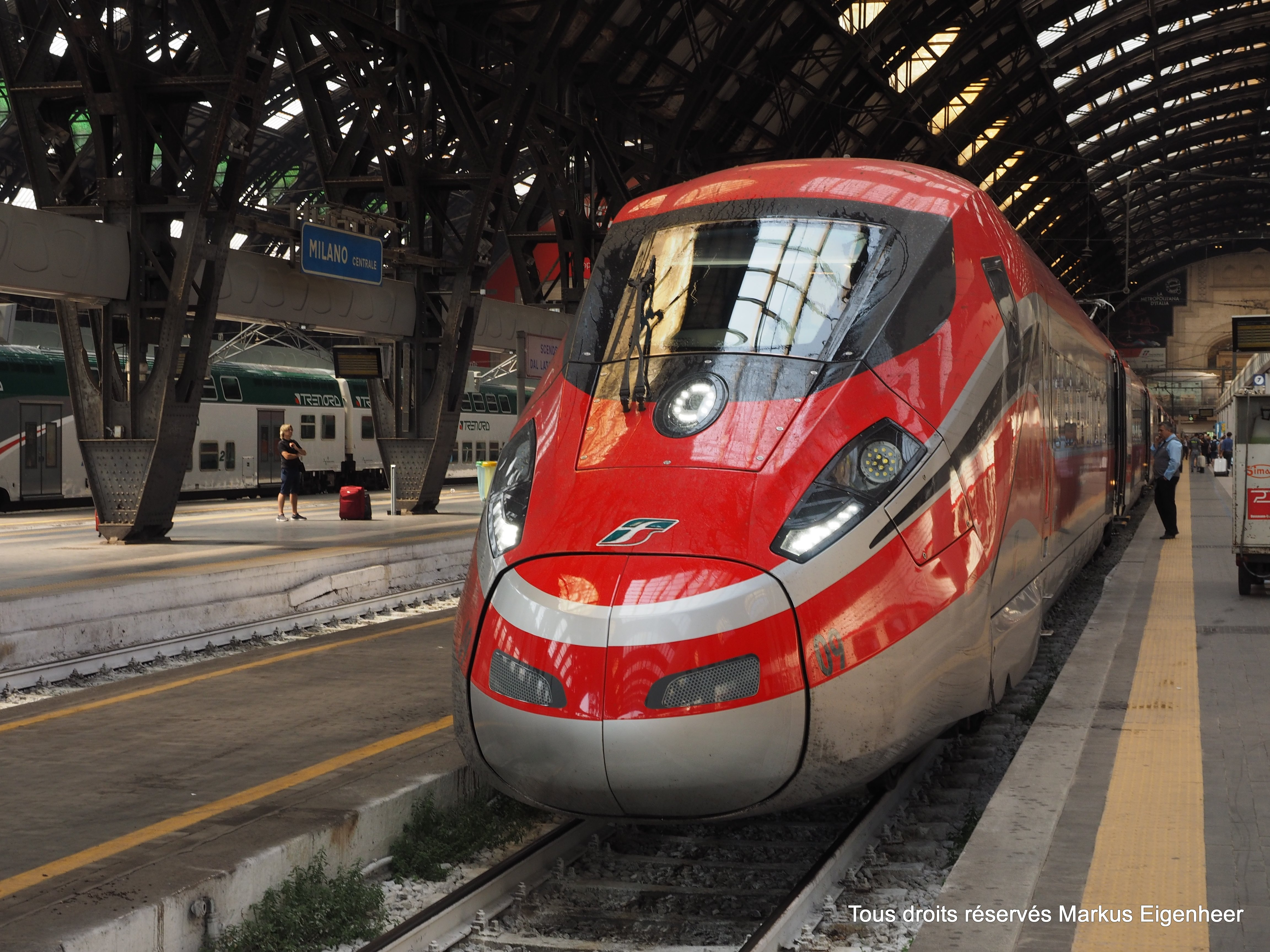 Milano Centrale 26.06.2015